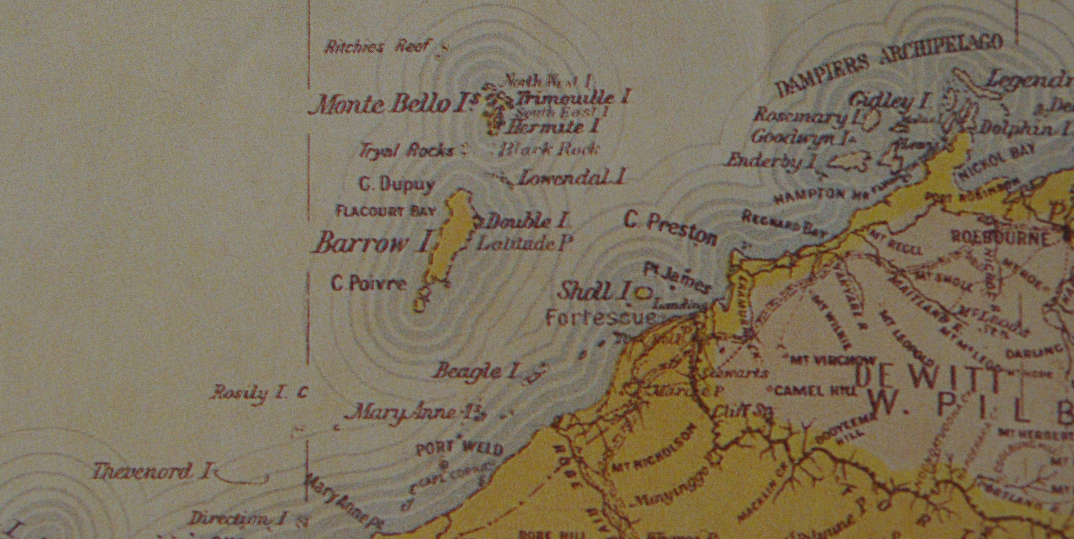 North West Coast including Barrow and Monte Bello islands